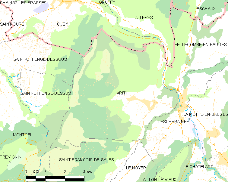 Map of French municipality